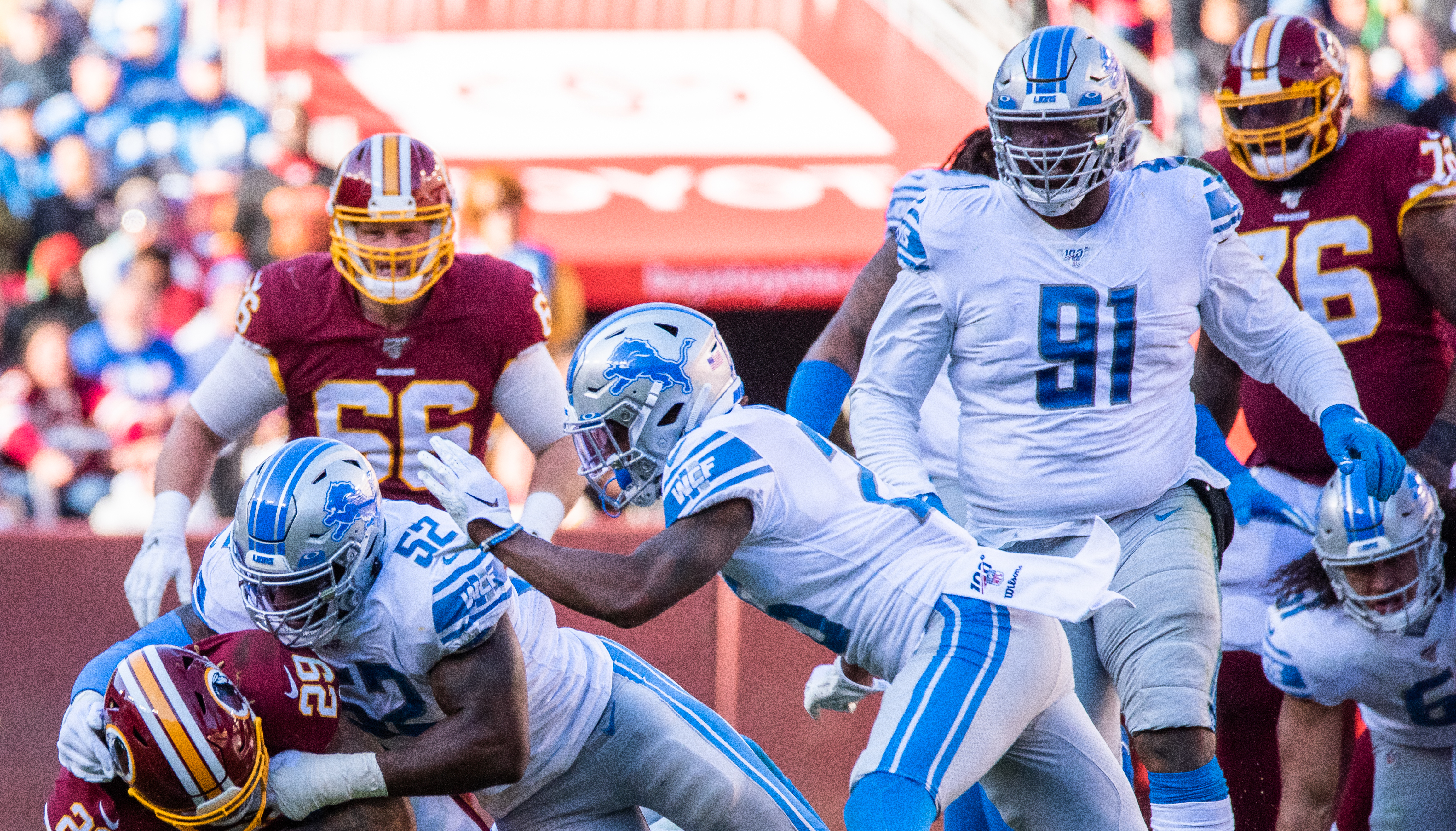 In 2019